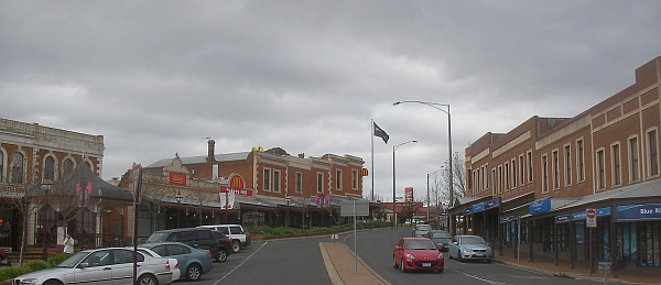 Ballarat Burrumbeet Road looking north east toward Bakery Hill Junction.